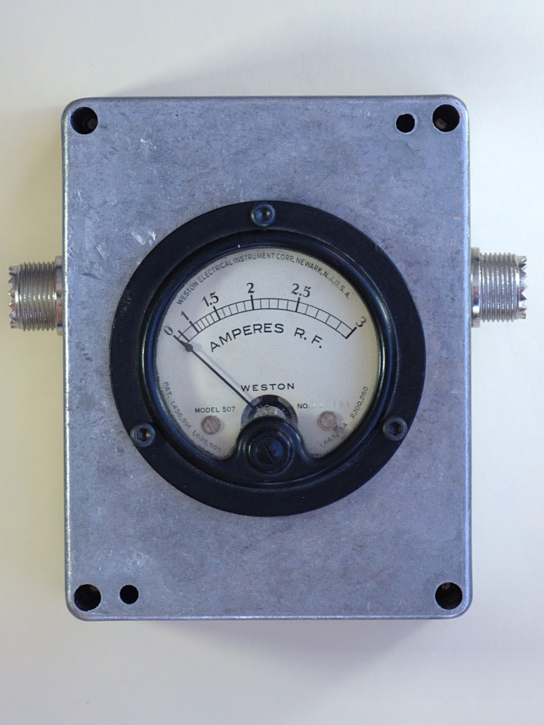 A thermal ammeter with a wide frequency range (DC-60 MHz) for in-line antenna current measurement.